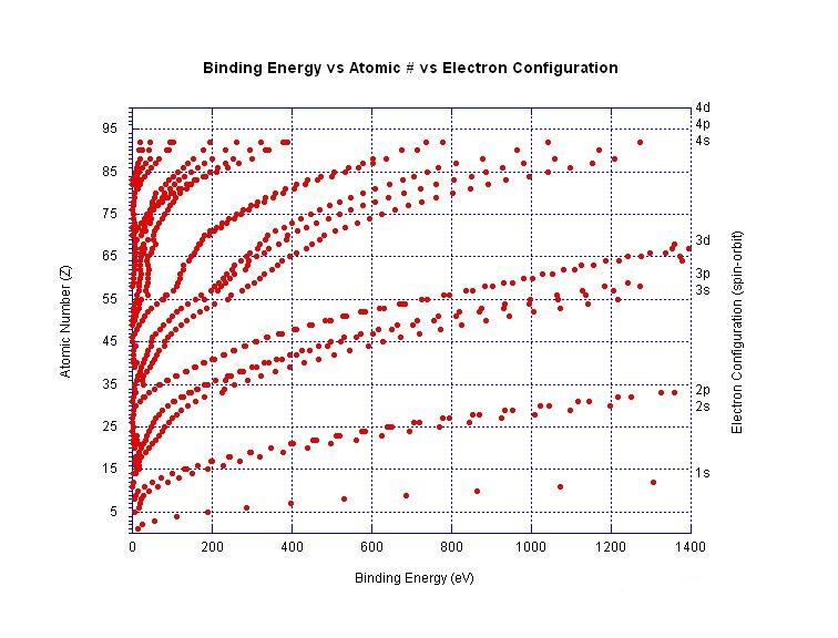 A plot of Atomic Number (Z) versus Electron Binding Energies for the Elements with labels showing the energy vs Z pattern for the inner orbitals.